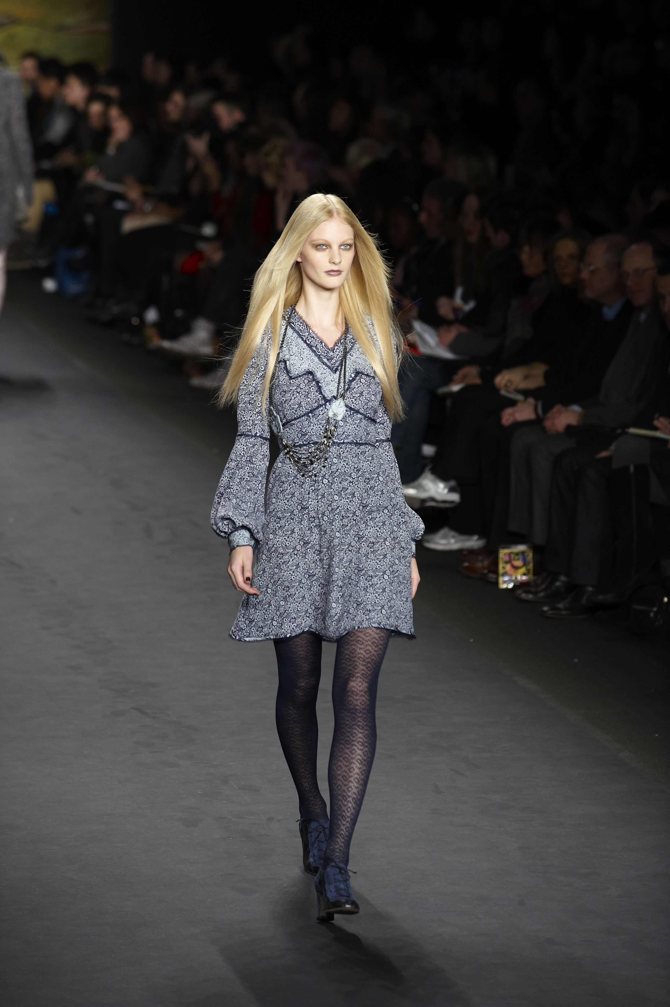 A model walks the runway at the Anna Sui Fall/Winter 2010 show at New York Fashion Week, February 2010.